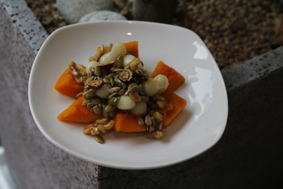 danhobak-jjim (steamed kabocha squash)